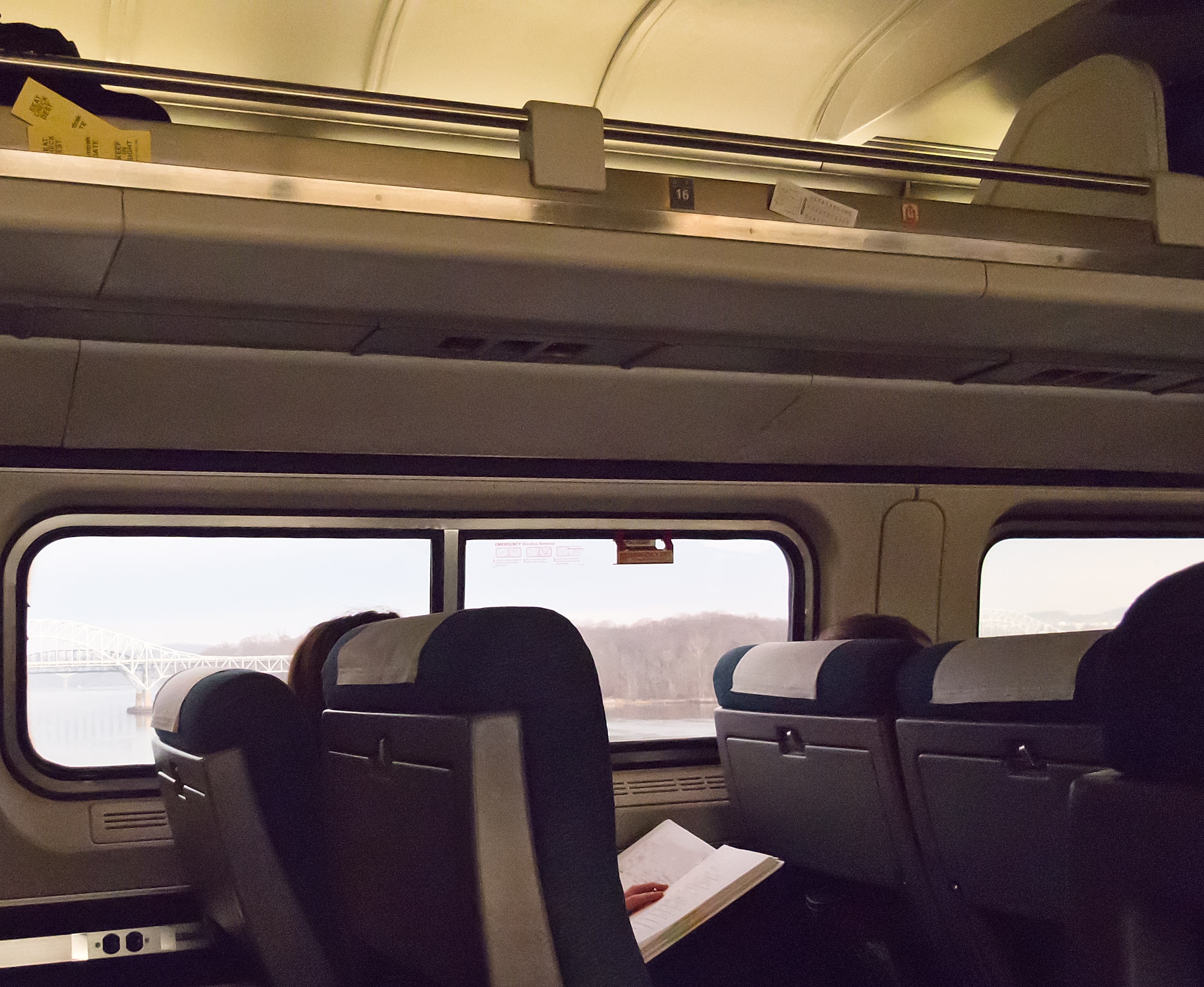 Seat checks (over the head) on an Amtrak Northeast Regional train as it crosses the Susquehanna river (bridges can barely be seen in background)